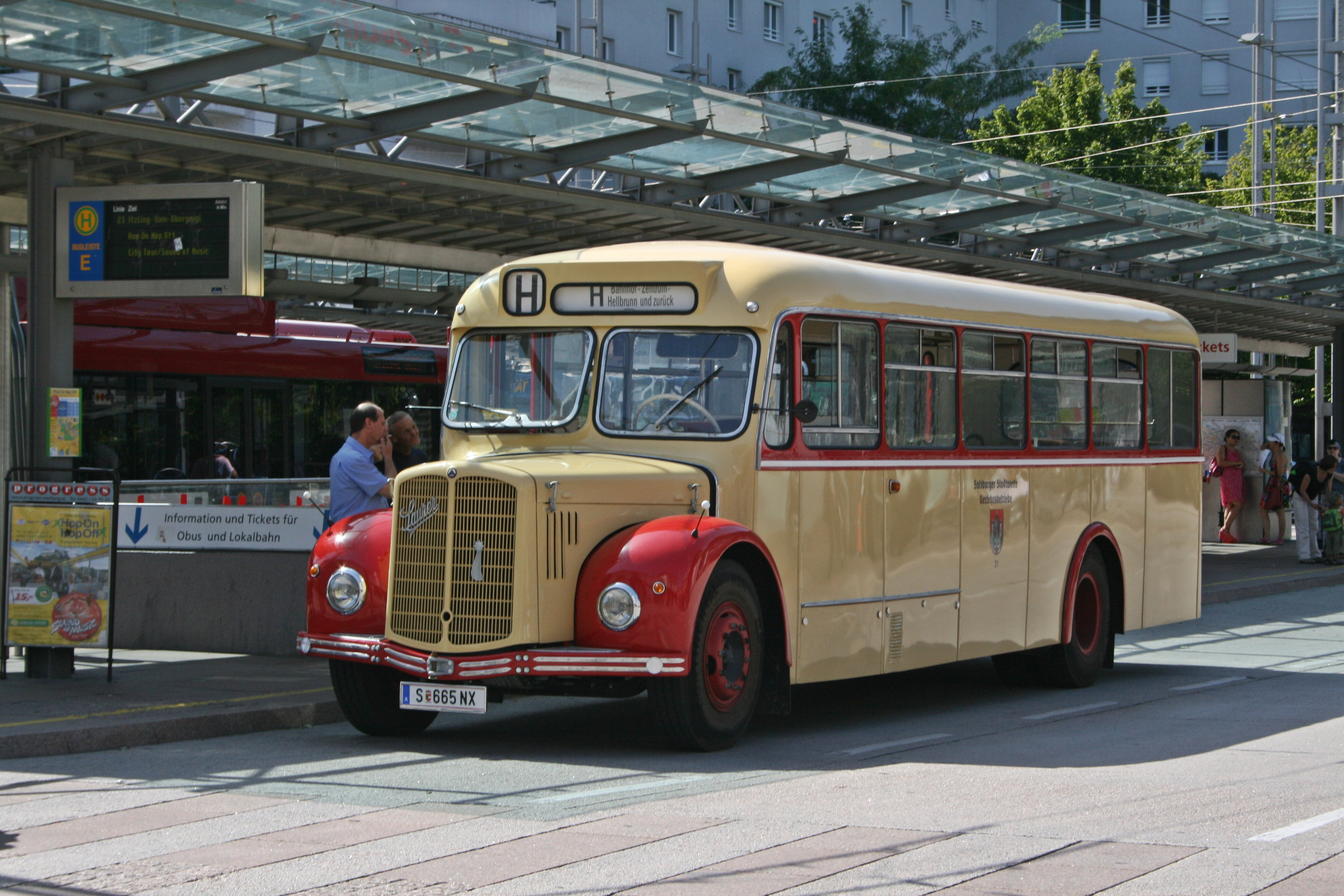 Saurer Oldtimer Bus in Salzburg